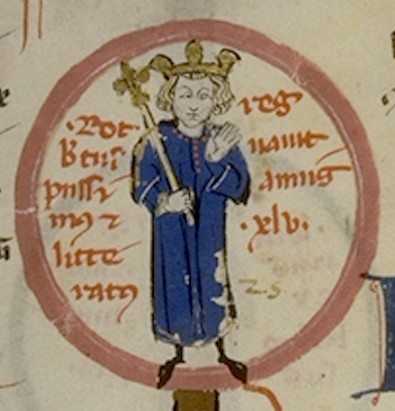 Robert II of France